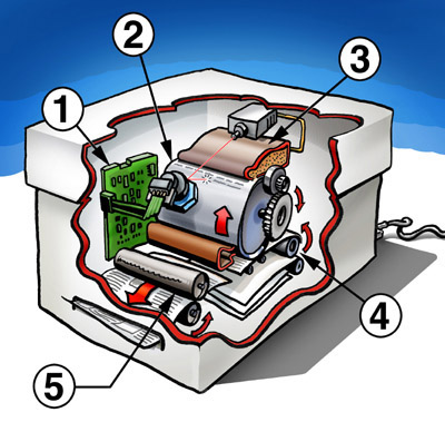 cutaway drawing, color illustration of the technical components of a laser printer